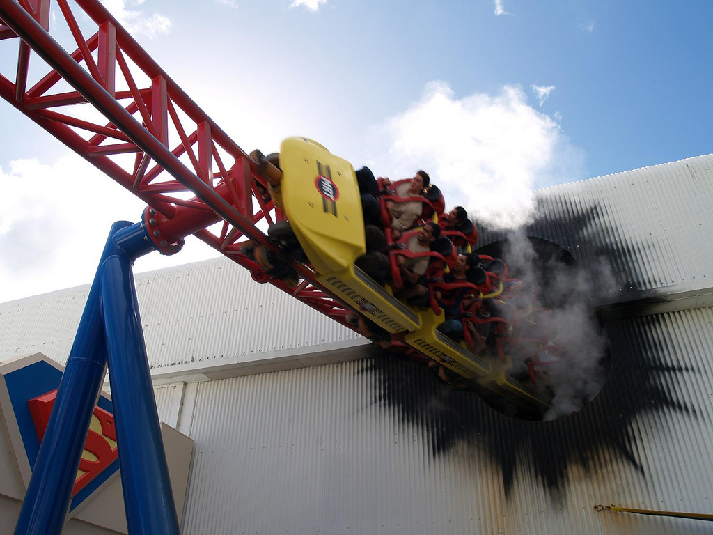 Metropolis Rapid Transport. Haha. The Superman Escape ride!